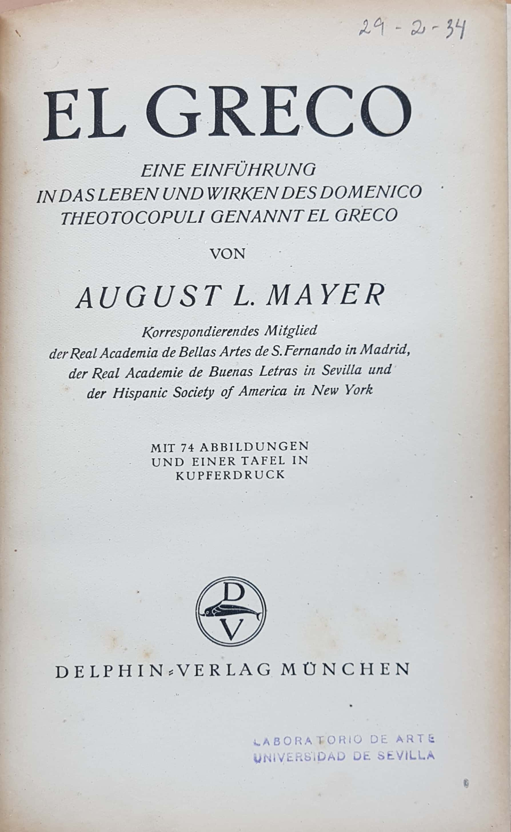 Autor: Mayer, August Liebmann. Título: El Greco : eine Einführung in das Leben und Wirken des Domenico Theotocopuli Genannt el Greco / August L. Mayer. Publicación: München : Delphin, verlag, 1911. Descripción física: 90 p., [1] h. de lám. : il. ; 23 cm. Notas: La h. de lám. es el supuesto retrato del Greco. Materia/género: El Greco (ca. 1541-1614)-Biografías. Pintura española. Lugar: Alemania - Múnich Arte 29-2-34